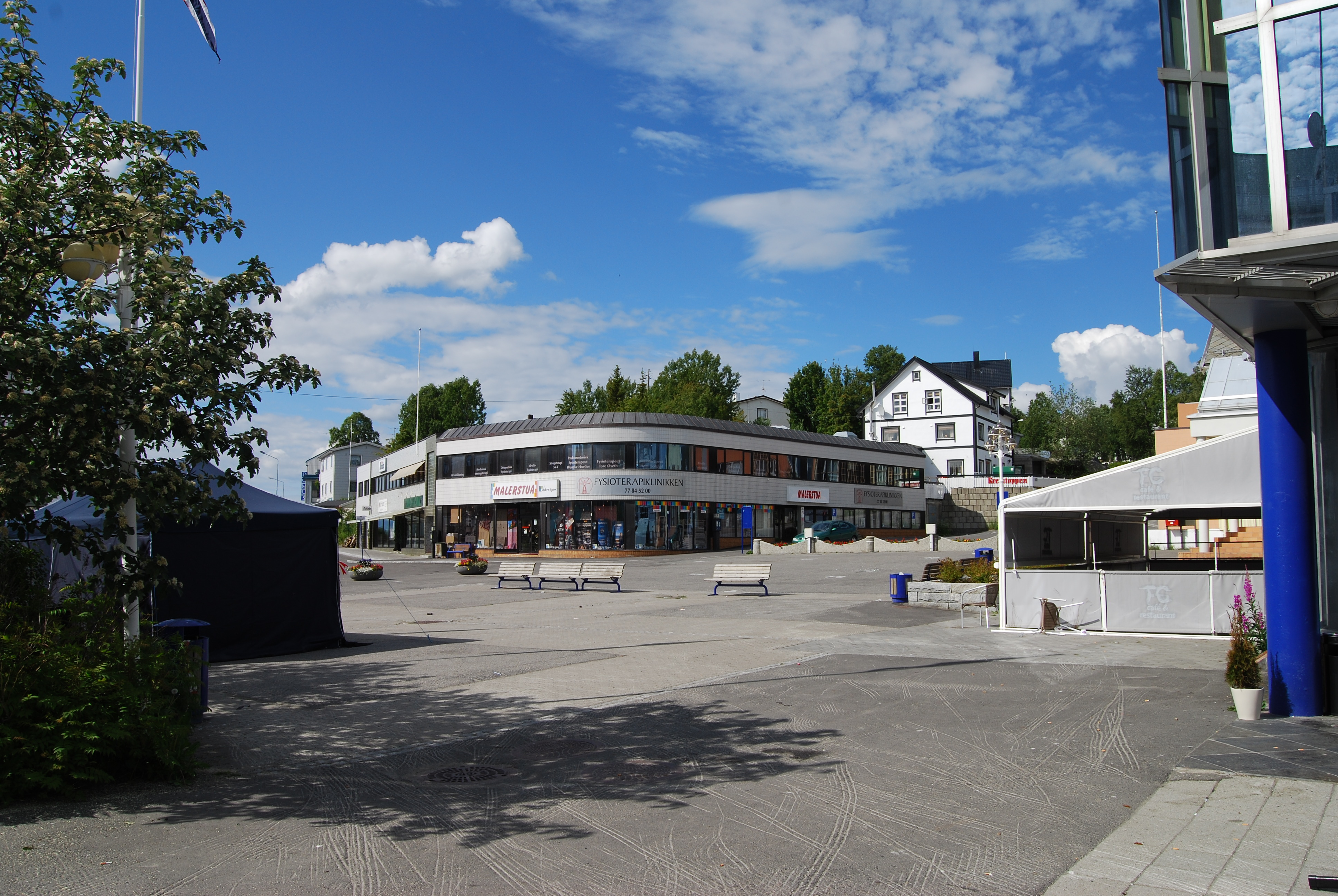 Finnsnes square before Finnsnes senter, Lenvik, Norway.